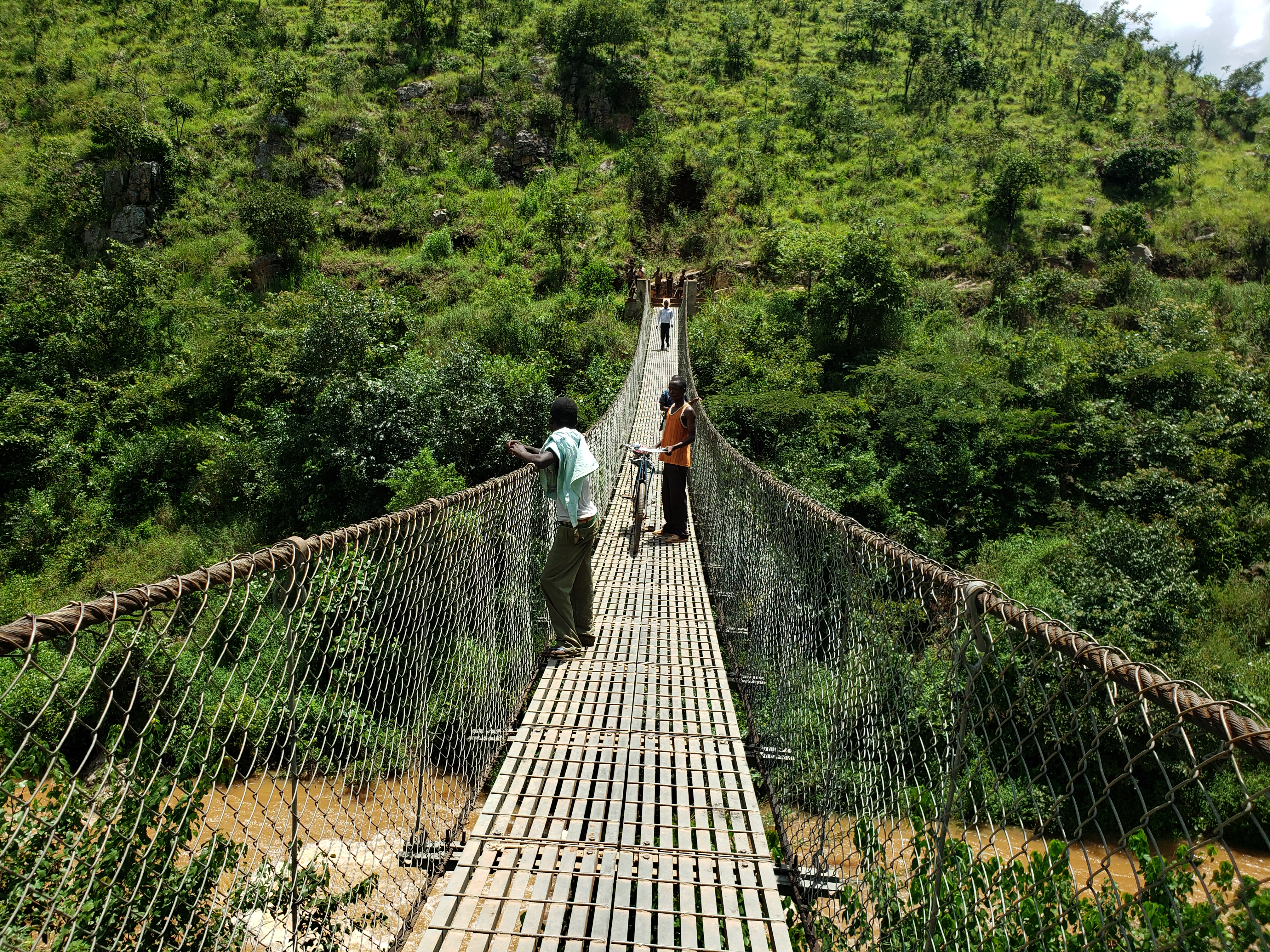 The bridge is located in Rutana, Burundi. It has been built to link two hills separeted by a river that can be seen on the picture as well. Before the bridge, people had to walk a long distance to go from one hill to the other. The bridge has shortened considerably the distance and facilitated transport of people and goods. This is an image with the theme "Africa on the Move or Transport" from: Burundi